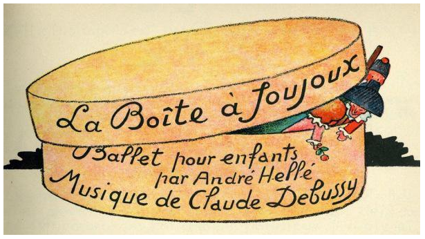 Cover music sheet of La Boîte à joujoux designed and written by André Hellé, music by Claude Debussy, publisehd in Paris, by Durand & fils, 1913.